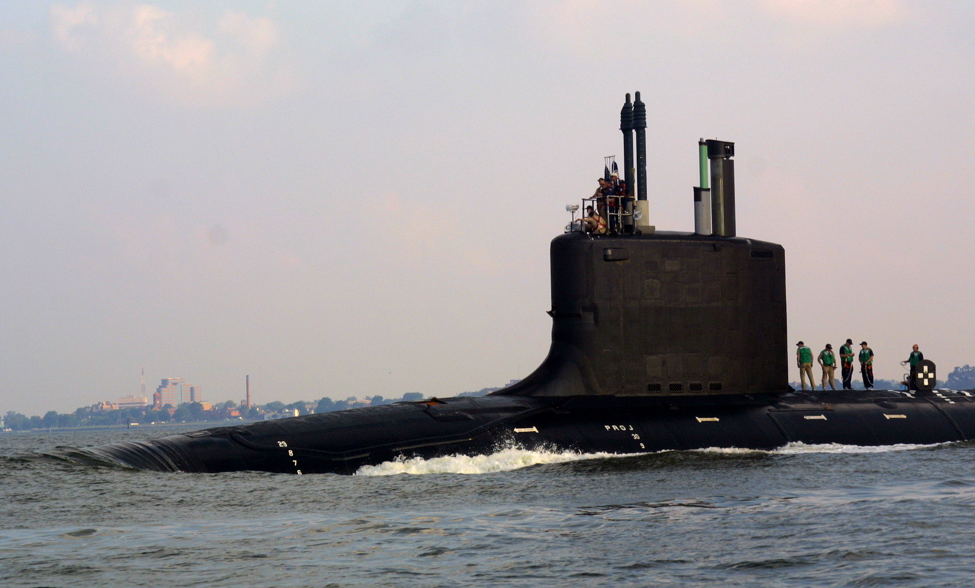 040825-N-5268S-002 Portsmouth, Va. - The nation’s newest and most advanced nuclear-powered attack submarine PCU Virginia (SSN 774) passes the skyline of Hampton, Va., with the campus of Hampton University seen in the background, on its the way to Norfolk Naval Shipyard upon completion of Bravo sea trials. Virginia is the Navy’s only major combatant ready to join the fleet that was designed with the post-Cold War security environment in mind and embodies the war fighting and operational capabilities required to dominate the littorals while maintaining undersea dominance in the open ocean.